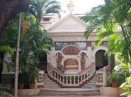 SV ROAD ANDHERI BOM 58